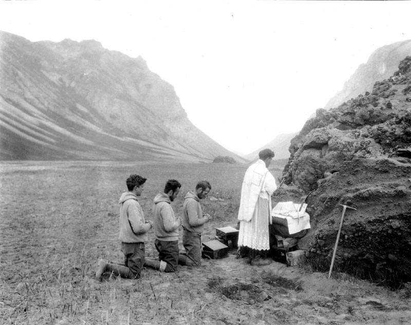 This photo of Hubbard and his party is taken during Hubbard's two-month exploartion of the Aniakchak Crater on the Alaskan Peninsula, not long after Aniakchak's May 12, 1931 eruption. Father Hubbard entitled this image "Mass in a Volcano Crater." Hubbard began every day with Mass, no matter where he found himself.